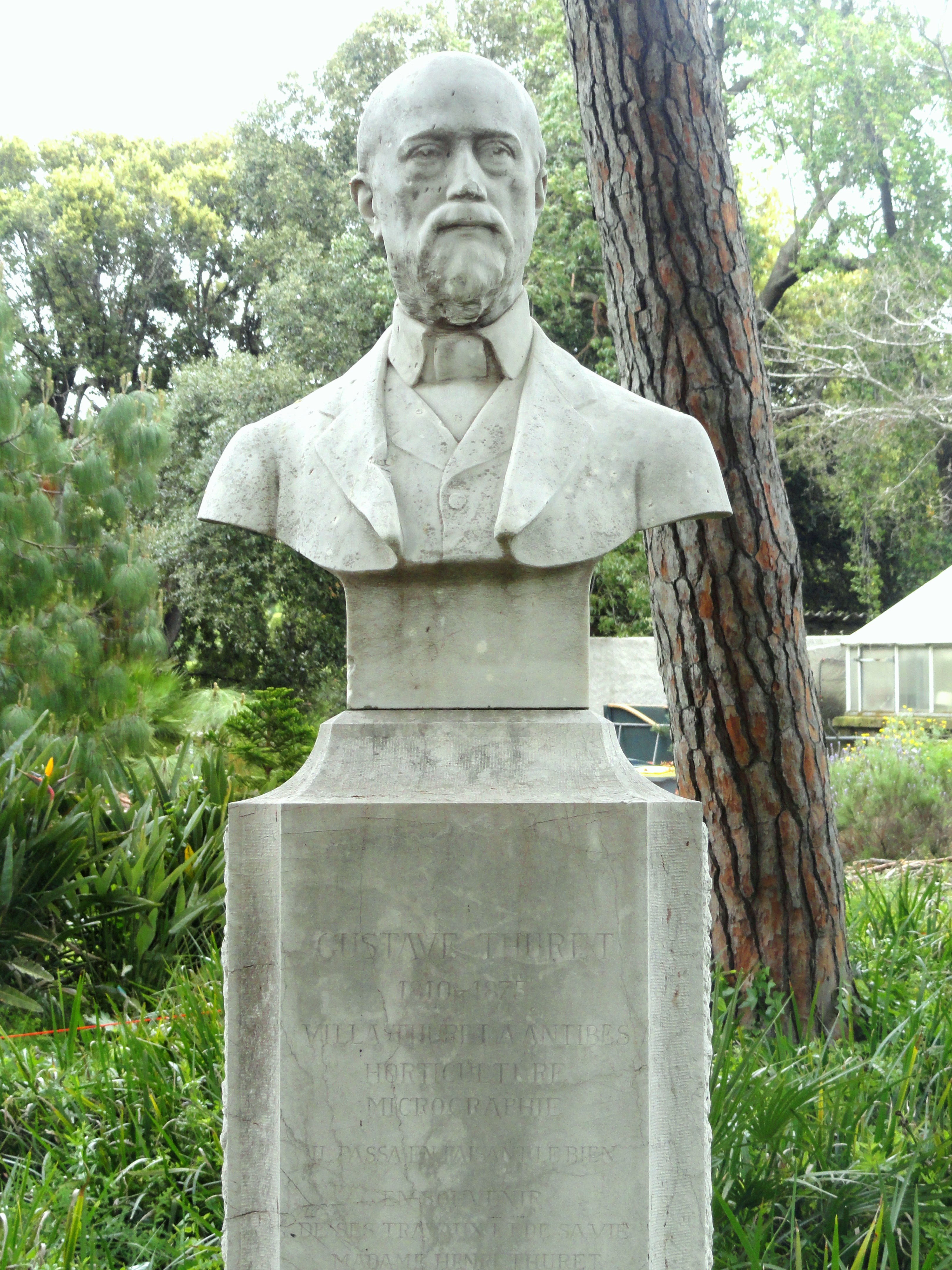 General view of the Jardin botanique de la Villa Thuret, Antibes Juan-les-Pins, Alpes-Maritimes,France.